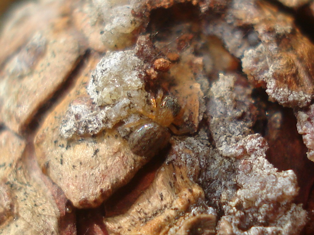 Euophrys frontalis